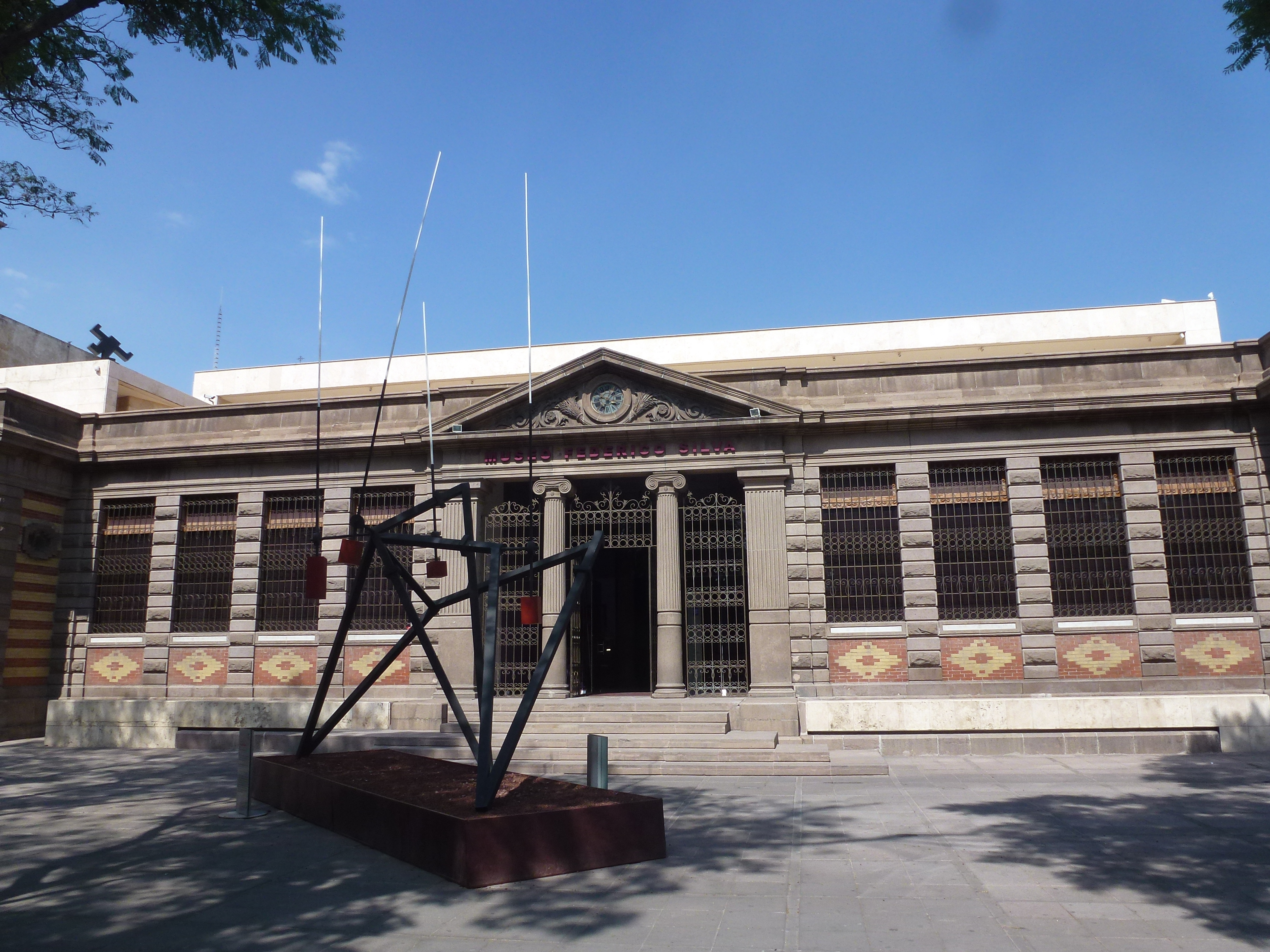 Federico Silva Museum, San Luis Potosi, Mexico